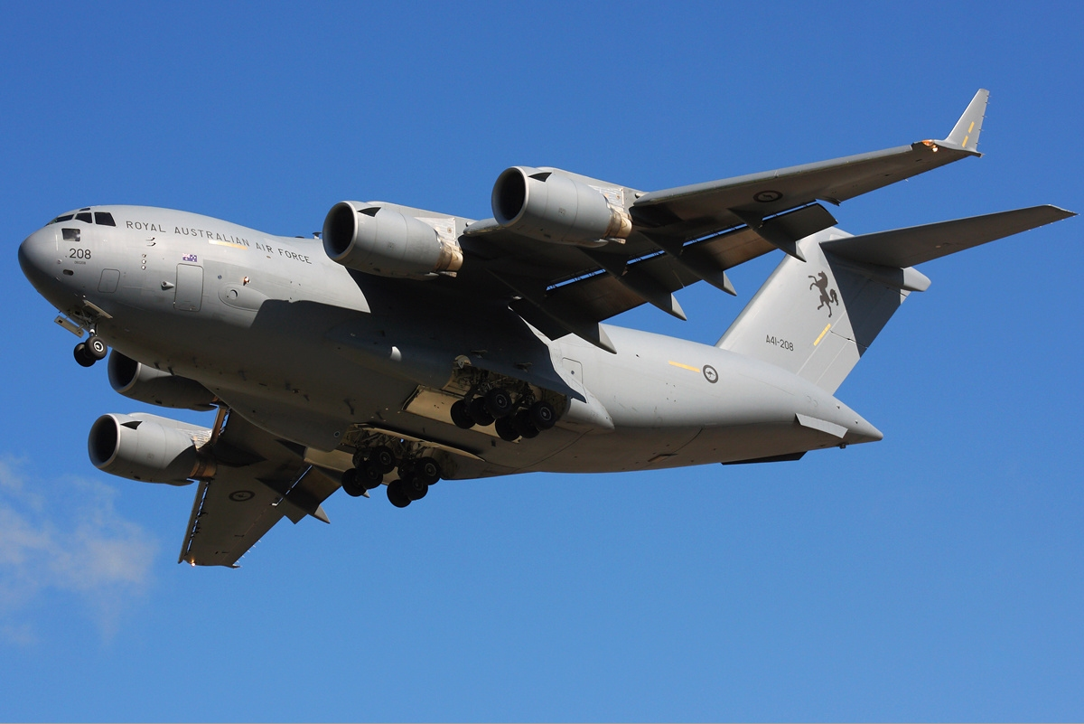 RAAF Boeing C-17A Globemaster III at Townsville Airport